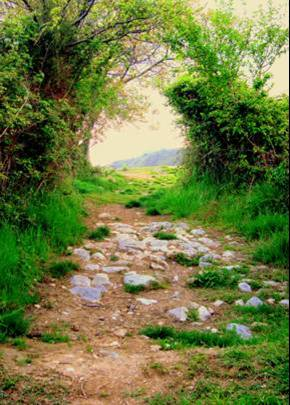 River